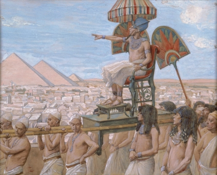 Pharaoh Notes the Importance of the Jewish People, by James Jacques Joseph Tissot (French, 1836-1902), Gouache on board, 9 x 11 7/16 in. (22.9 x 29.1 cm), at the Jewish Museum, New York